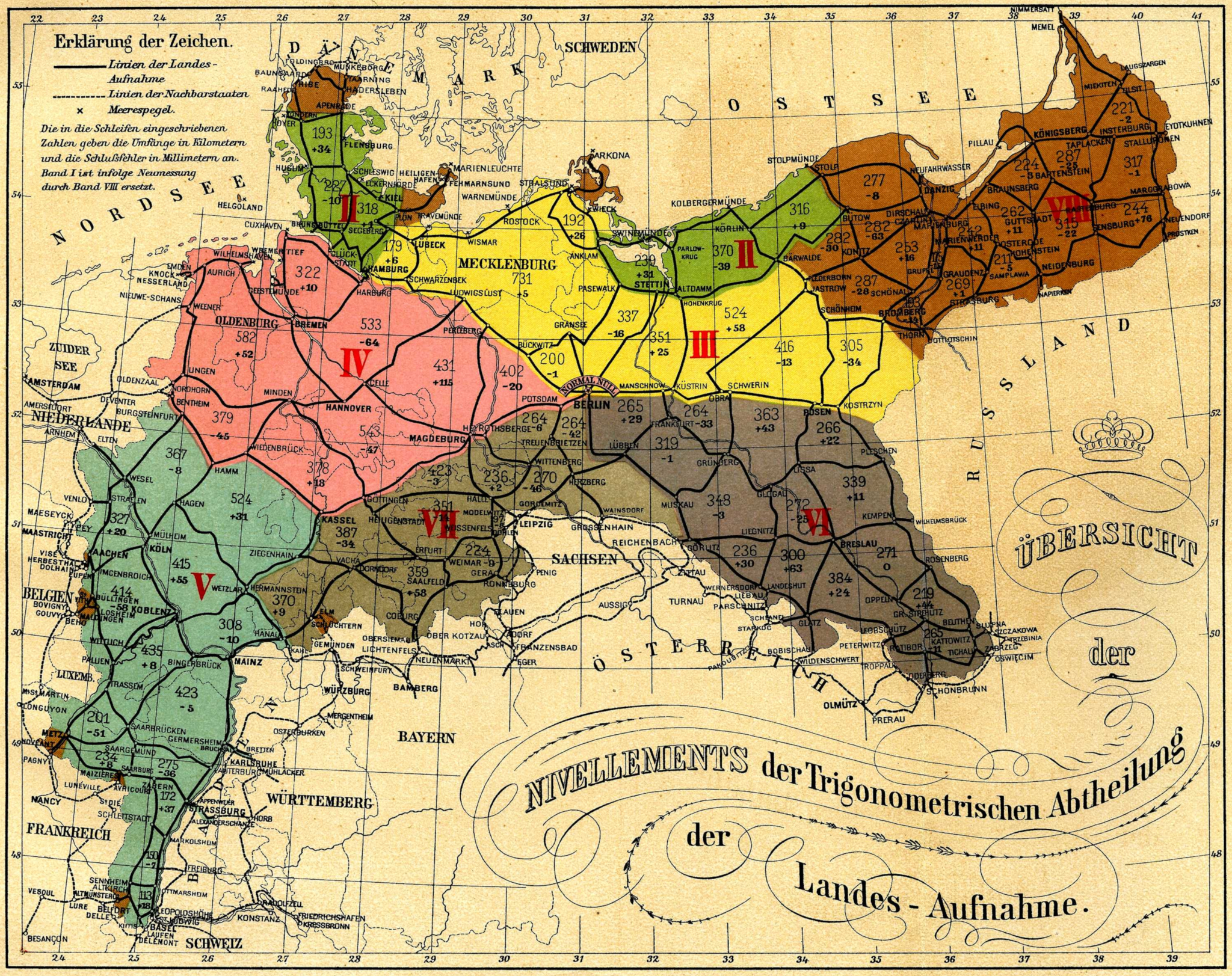 General map of the levellings of the trigonometric department in Prussia.